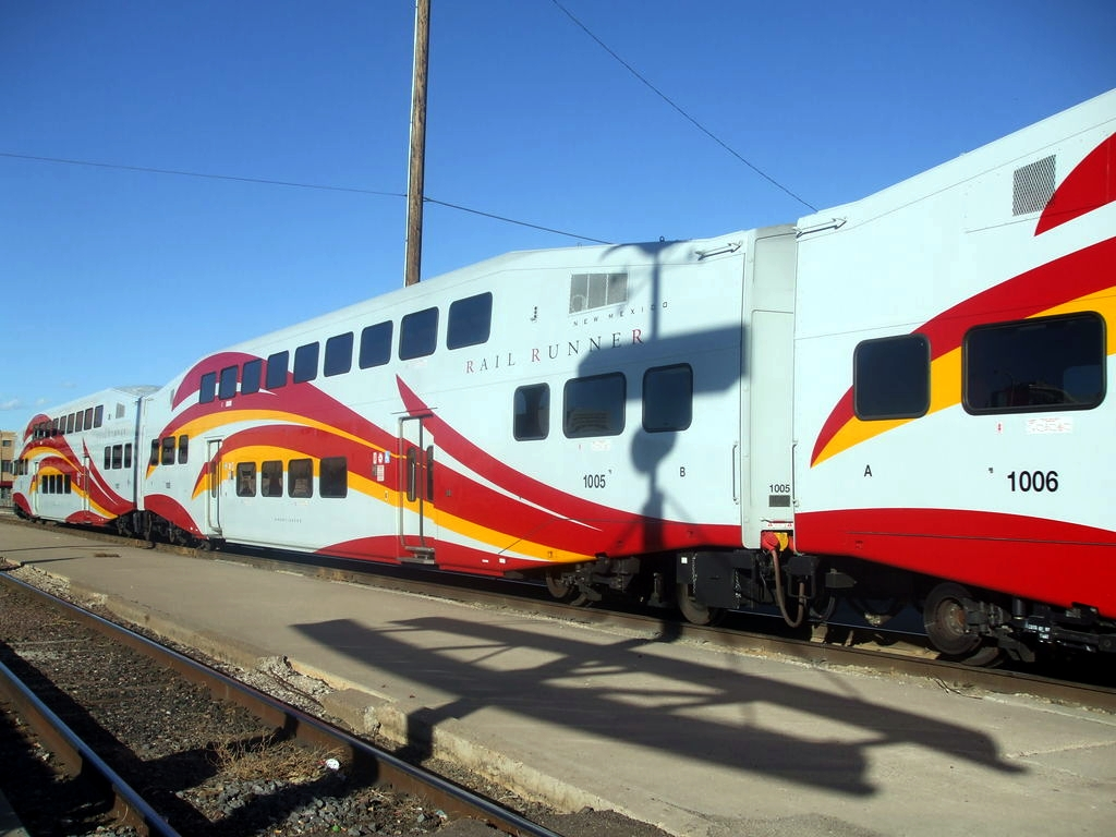 Rail Runner Express double-deck carriages. The service is operated by the push-pull principle, with the locomotive always at the southern end of the train. Taken at Downtown Albuquerque.